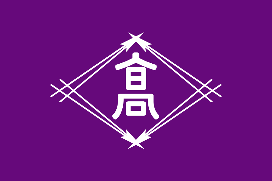 Flag of Takamatsu, Kagawa